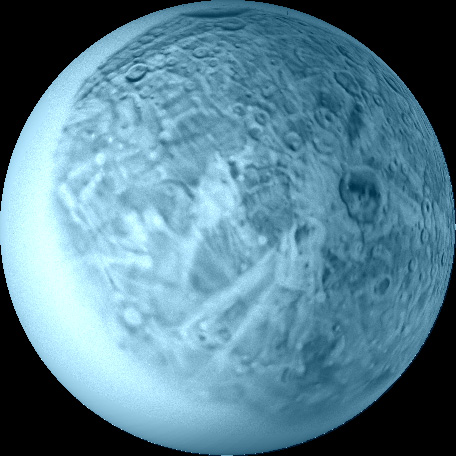 The map of Oberon showing known geological features. The large crater with the dark floor (right of center) is Hamlet.